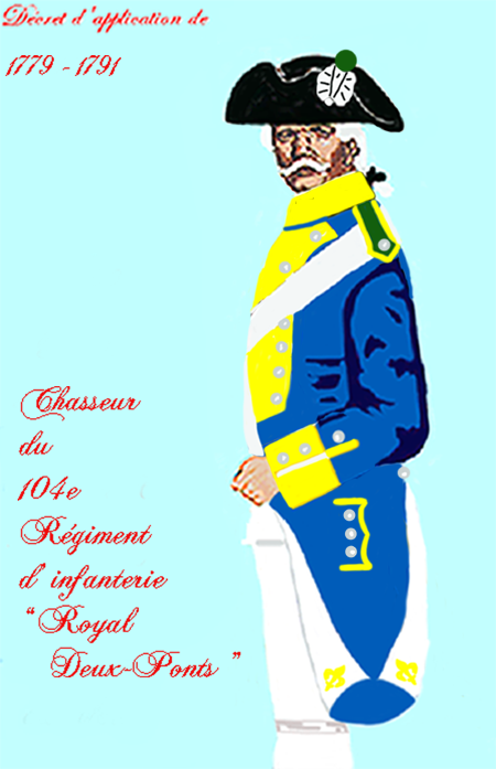 Uniform of a royal french infantry regiment from 1779 . Taken from: „LES UNIFORMES ET LES DRAPEAUX DE L'ARMÉE DU ROI“ Marseille 1899.